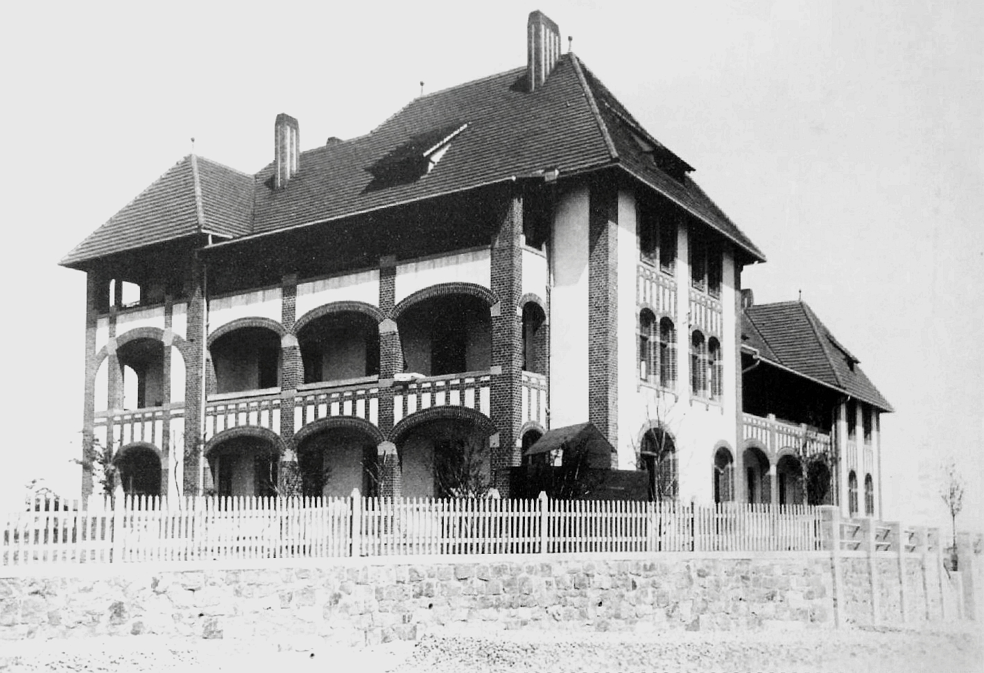 German Policemen Apartment, Tsingtau/Qingdao